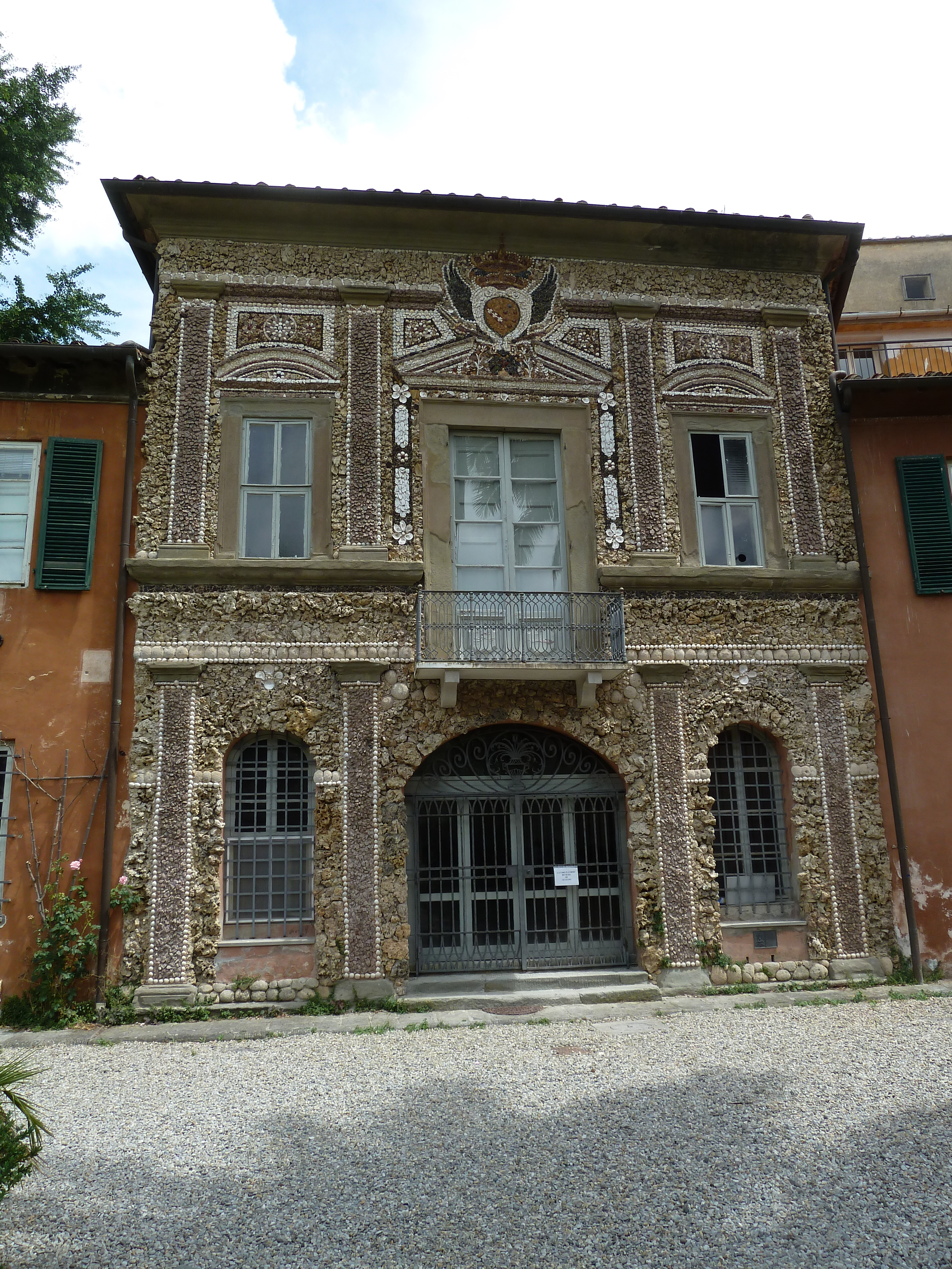 Orto botanico di Pisa